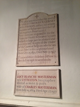 Plaque commemorating Charles Frederick Gurney Masterman 1873-1927 instigator of National Health Insurance system.